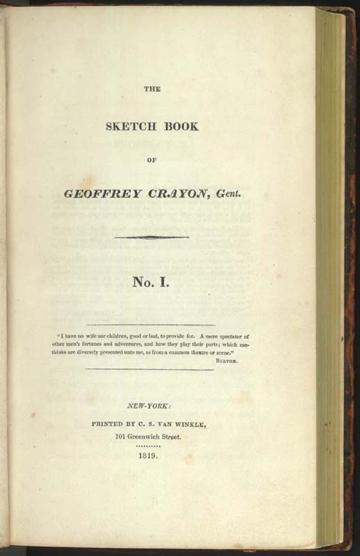 Title page of The Sketch Book of Geoffrey Crayon